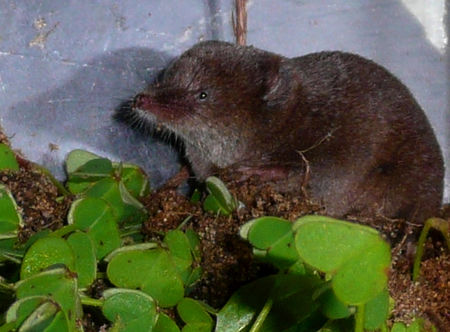 Iberian shrew (Sorex granarius) from Sintra, Portugal